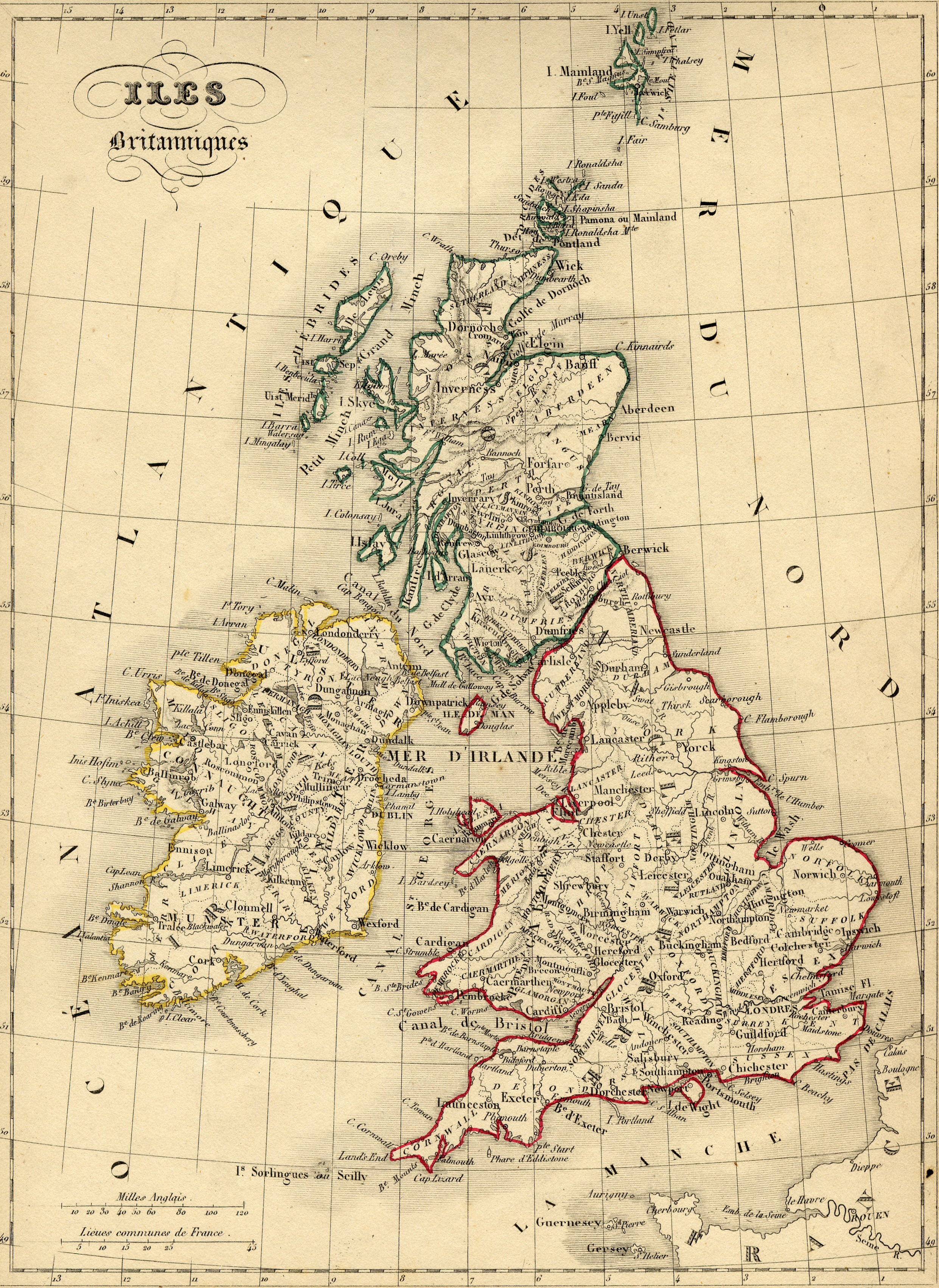 Map of United Kingdom (England, Wales, Scotland) and Ireland with french names made by Alexandre Vuillemin in 1843 extracted from his “Atlas universel de géographie ancienne et moderne à l'usage des pensionnats”. The map was originally monochrome but its first owner manually highlighted the national borders in colour.